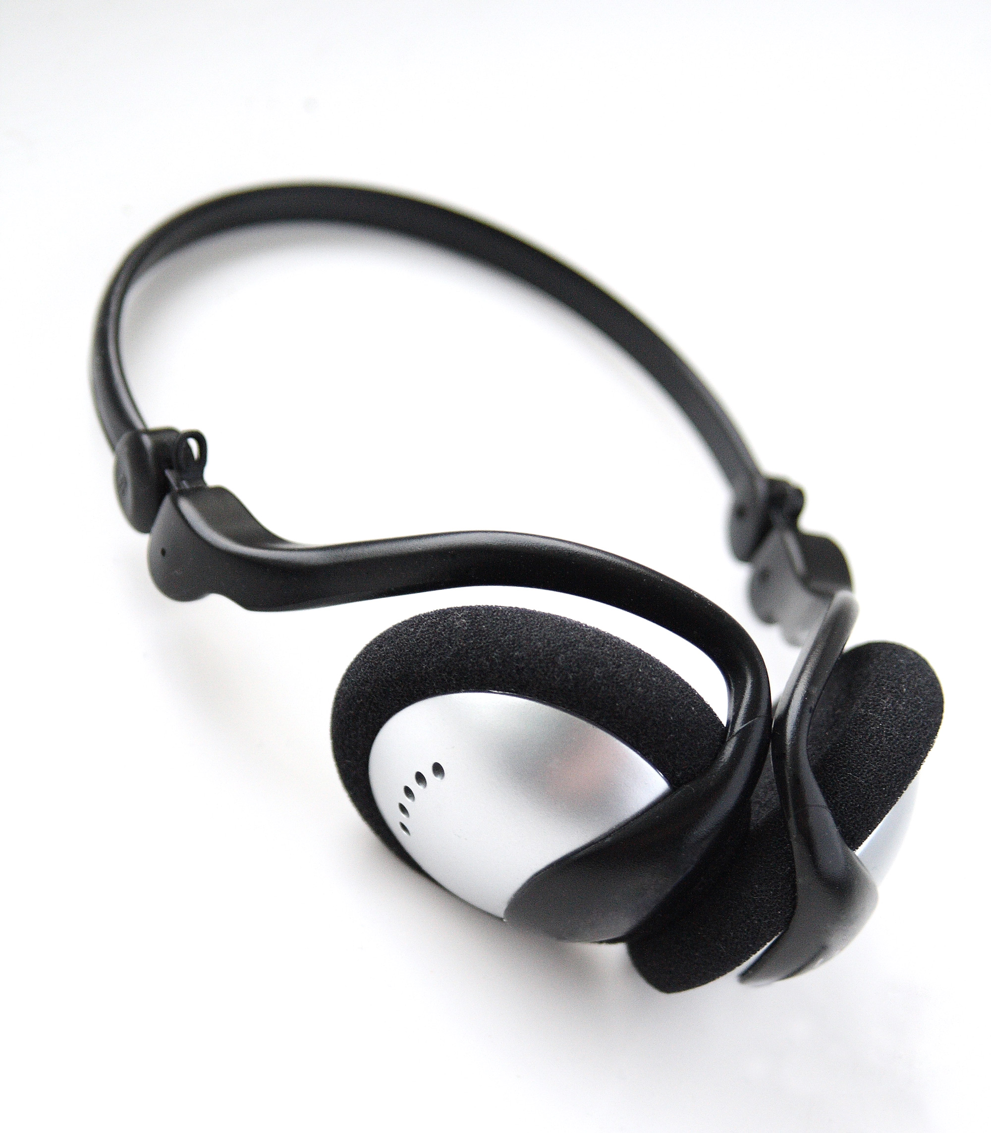 Koss headphones